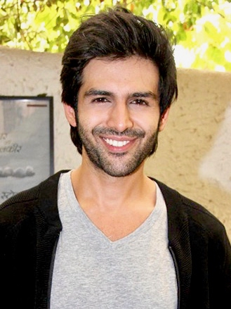 Kartik Aaryan ‘Pyaar Ka Punchnama 2’ at The Little Door in 2015